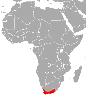 Cape Horseshoe Bat (Rhinolophus capensis) range